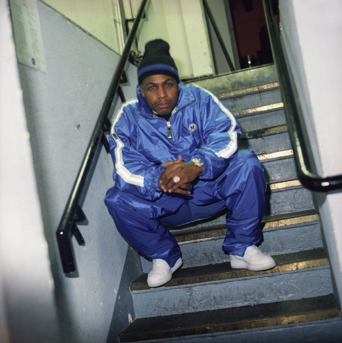 rapper AZ in Hamburg 1998